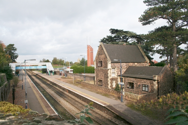 Malvern Link Railway Station